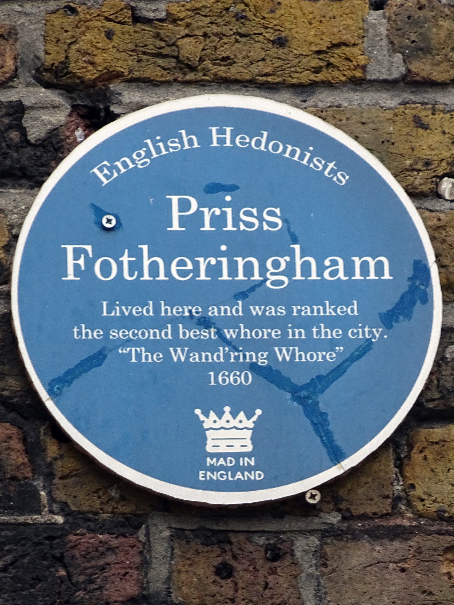 Blue Plaque erected in 2013 by artist Carrie von Reichardt in Whitecross Street London EC2